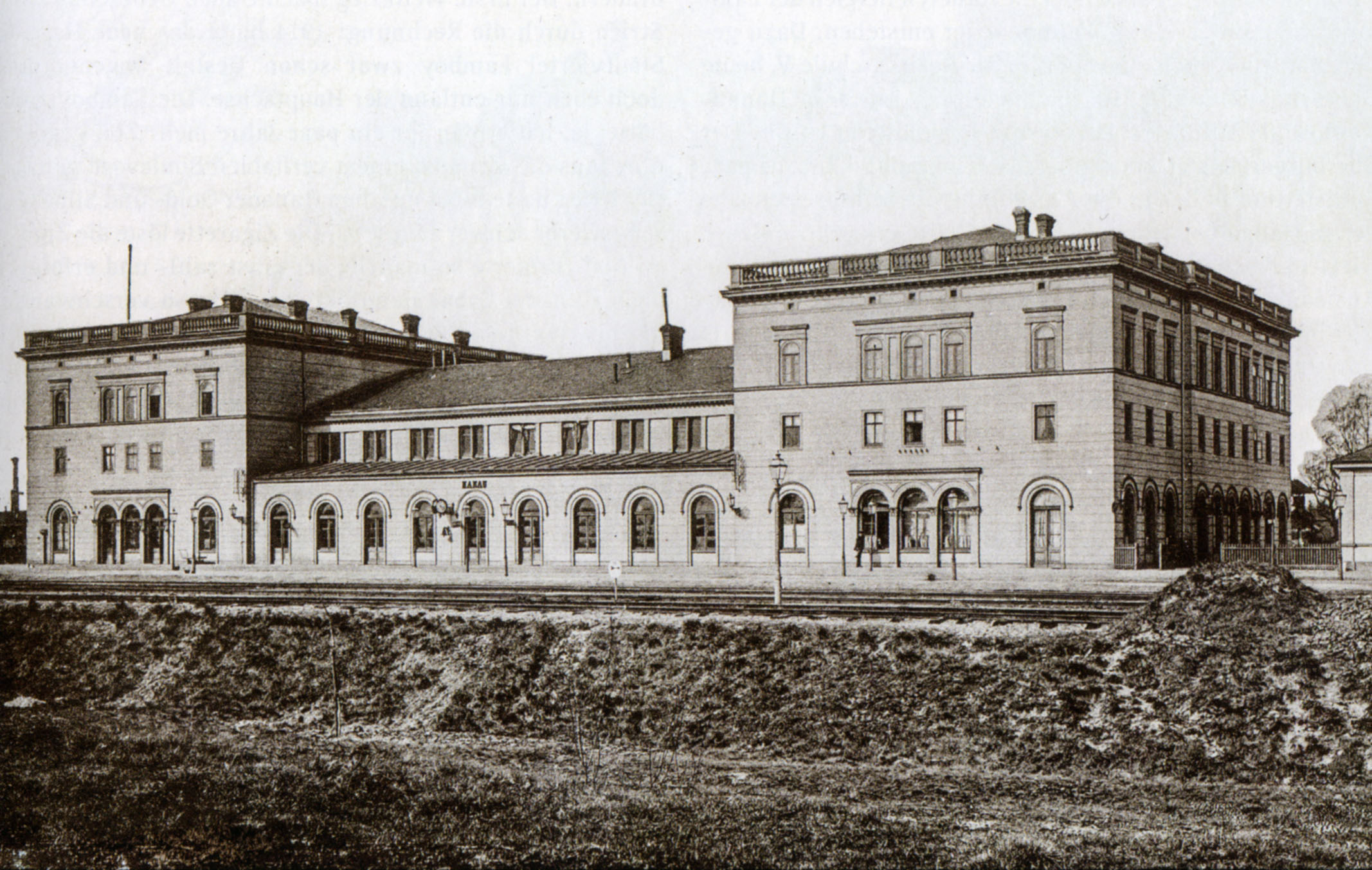 Hanau East railway Station, later: Hanau Central Station, from north